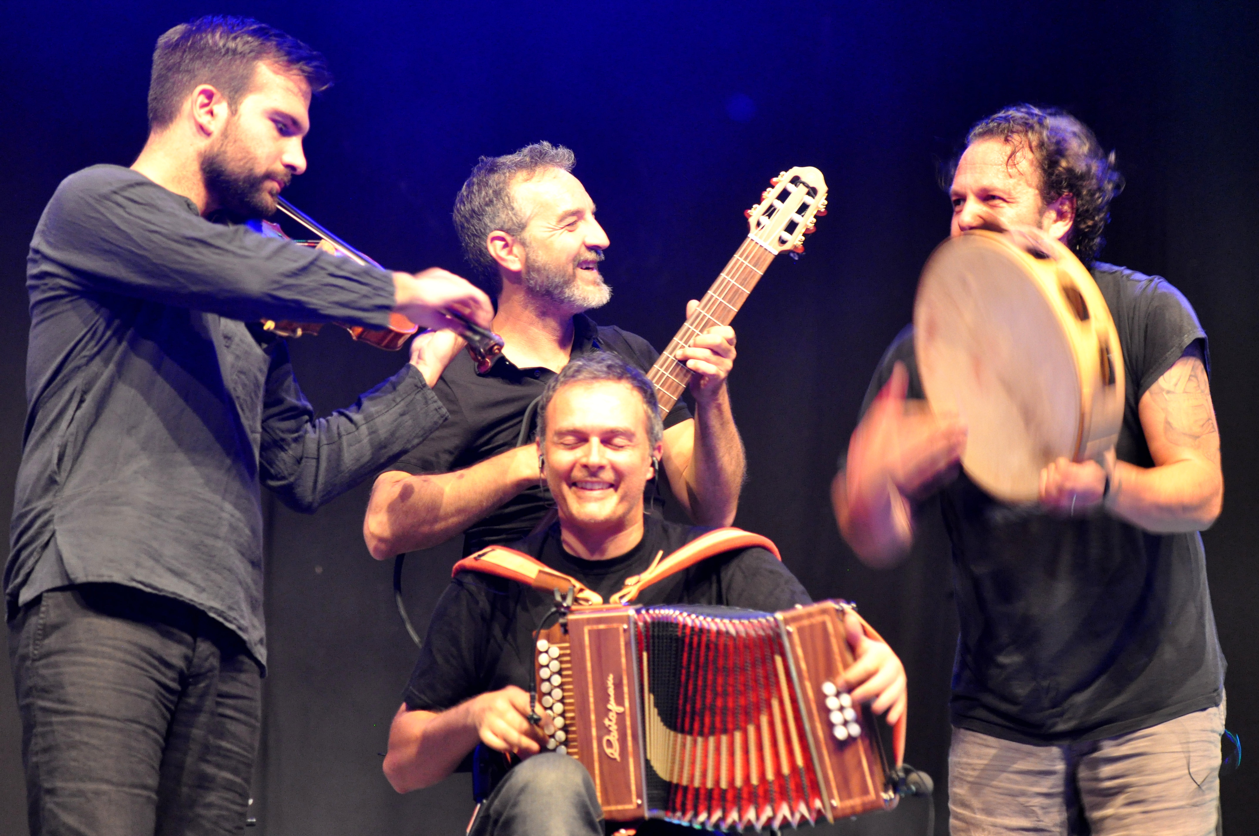 Canzoniere Grecanico Salentino (ITA), World Music Festival Horizonte 2015, Fortress Ehrenbreitstein, Koblenz, Rhineland-Palatinate, Germany Festivalsommer This photo was created with the support of donations to Wikimedia Deutschland in the context of the CPB project "Festival Summer".